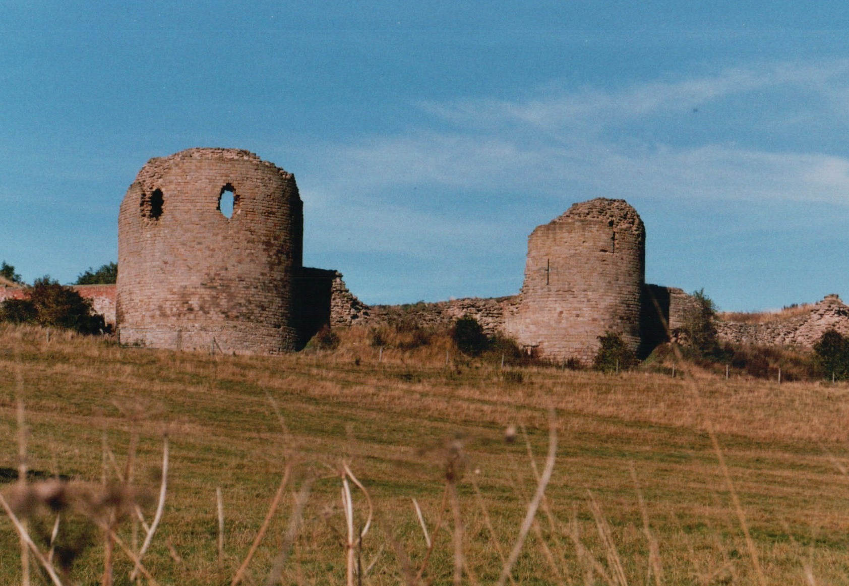 Two towers of the ruined Chartley Castle